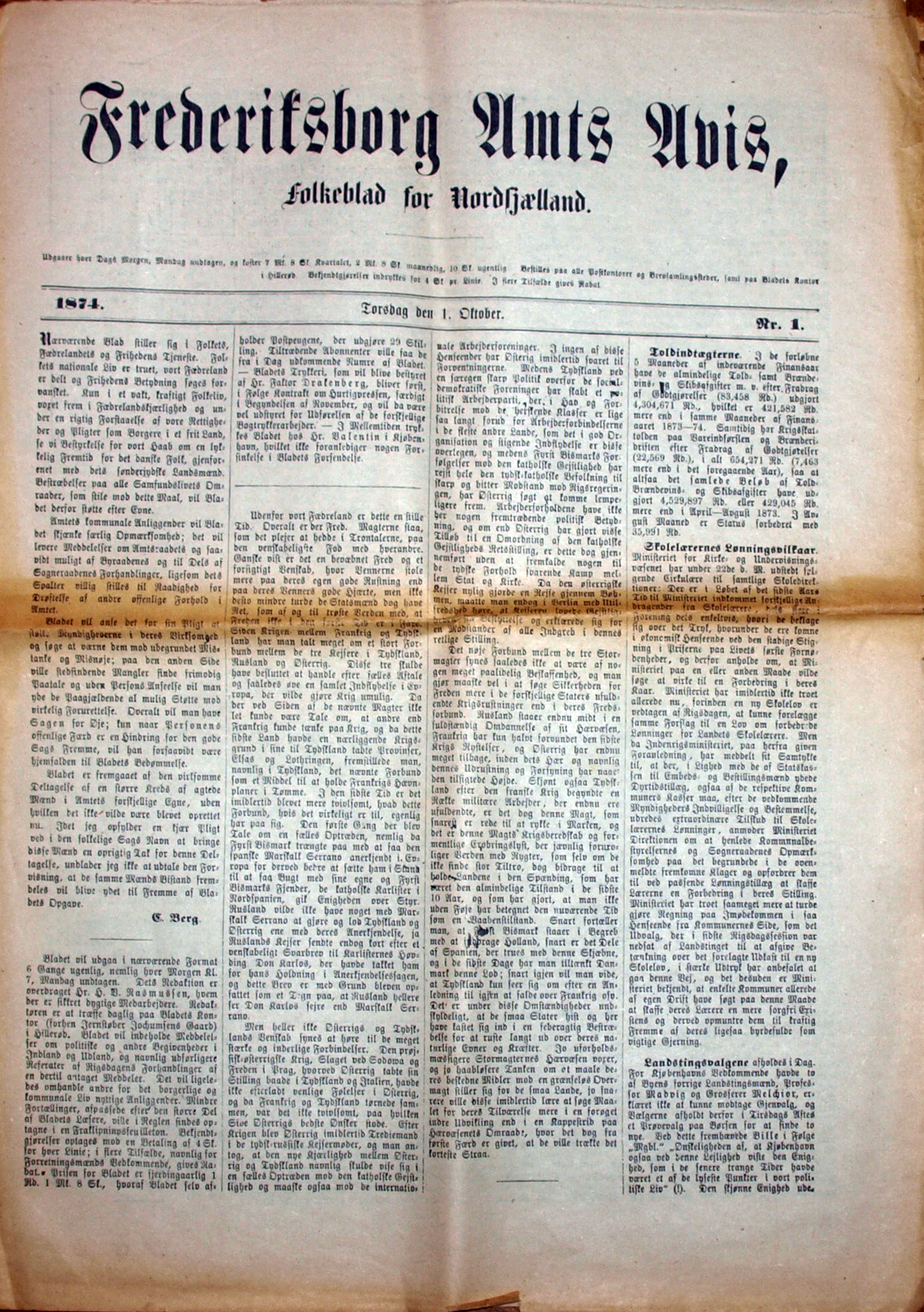 The first issue of Frederiksborg Amts Avis, 1874.